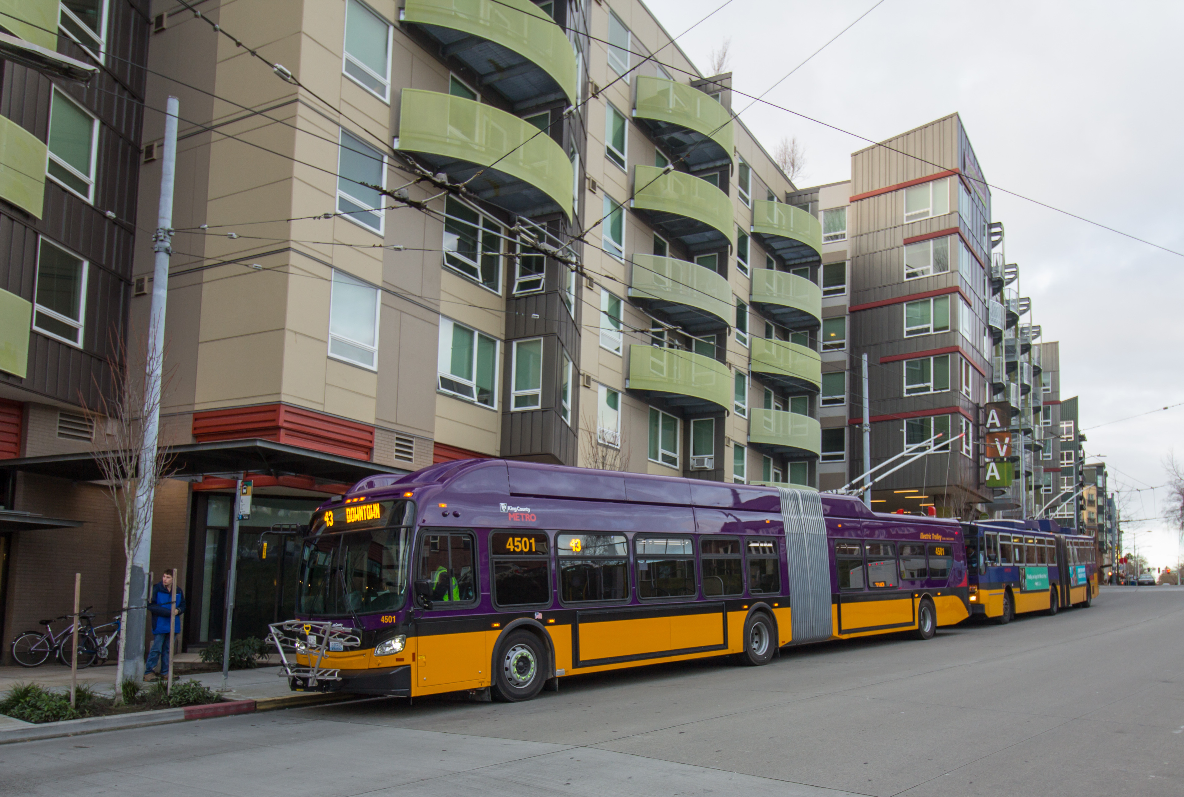 King County Metro (Seattle) New Flyer XT60 trolleybus No. 4501 laying over at route 43's University District terminal, on 12th Avenue Northeast, during the first few days in service for this type of trolleybus in Seattle. Behind No. 4501 is Breda trolleybus No. 4220, the type of vehicle the new XT40s will be replacing.